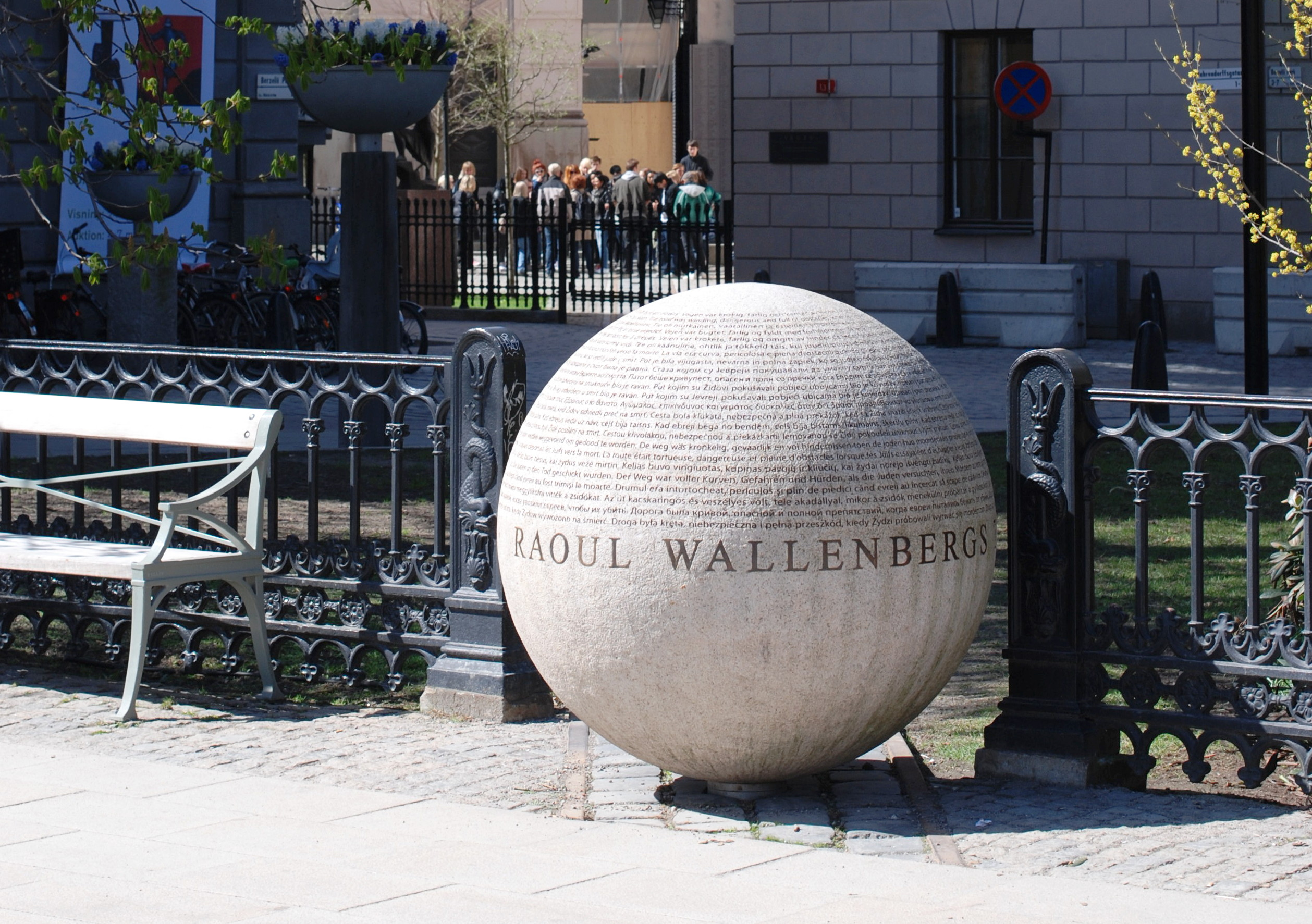 Memorial to Raoul Wallenberg, Stockholm, Sweden